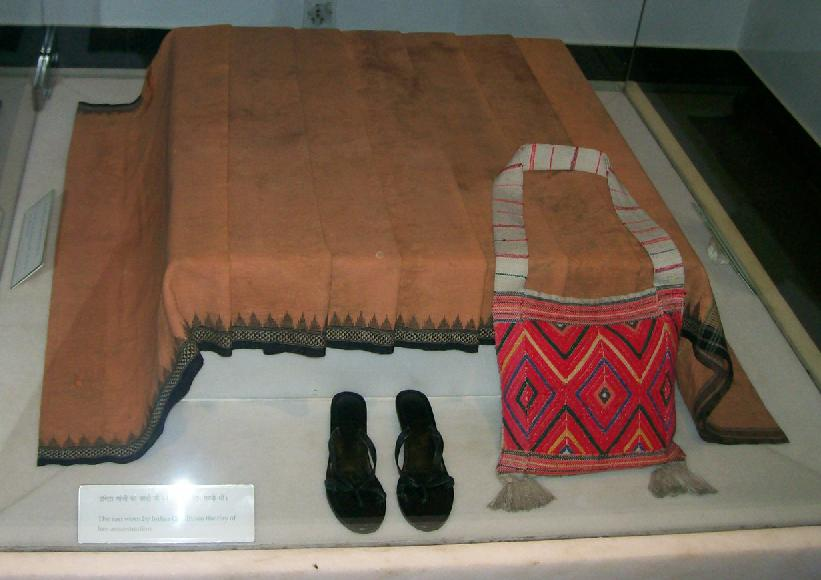 The saree she worn and her belongings of Indira Gandhi at the time of her assasination preserved at the Indira Gandhi Memorial Museum in Delhi.